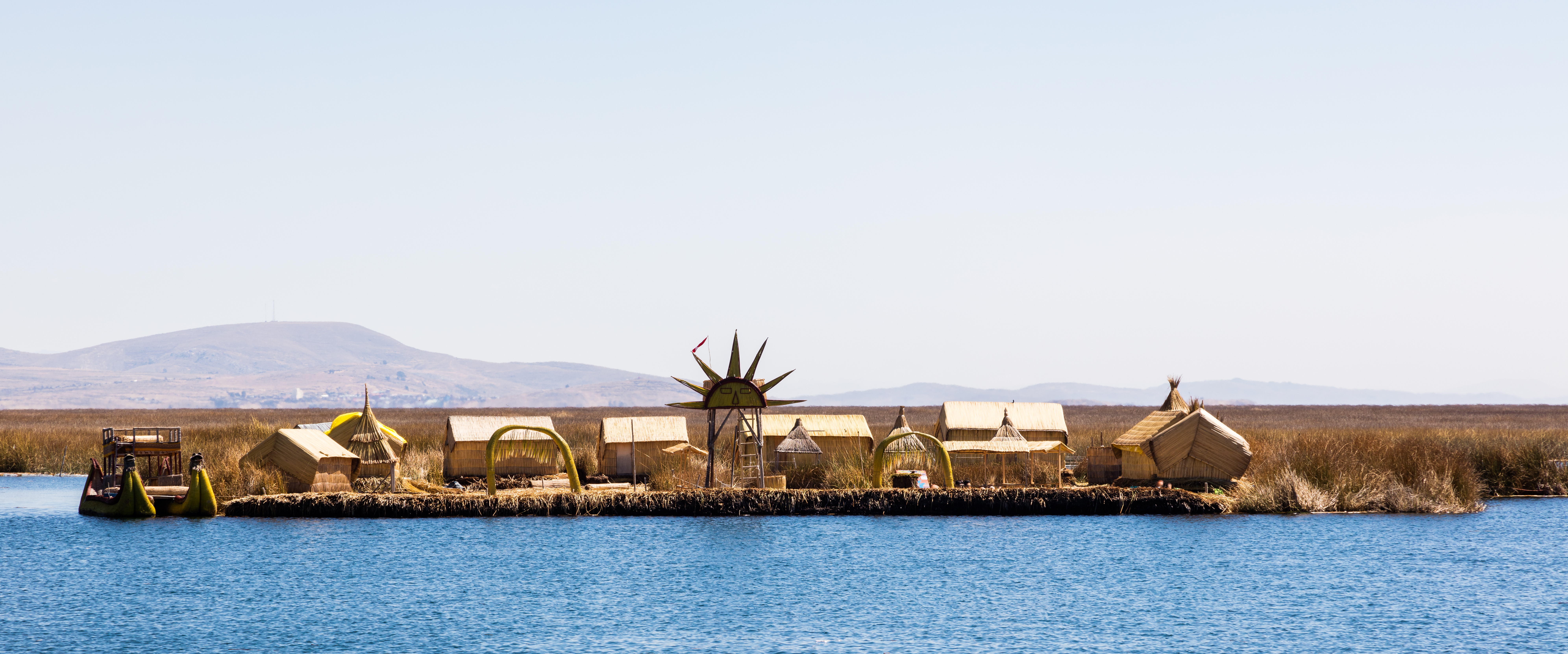 Uros floating islands, Titicaca Lake, Peru